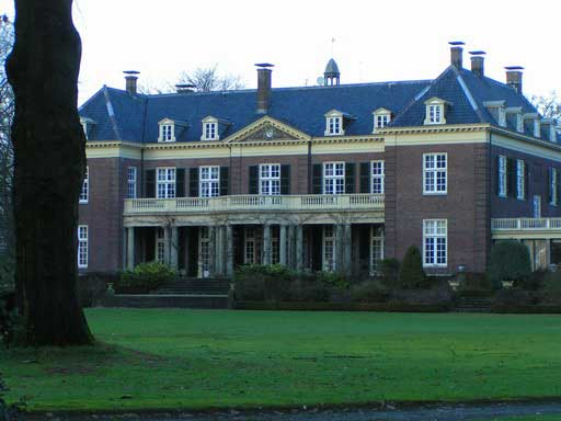 Mansion near Almelo, The Netherlands. Image taken by uploader. Category:Images of the Netherlands